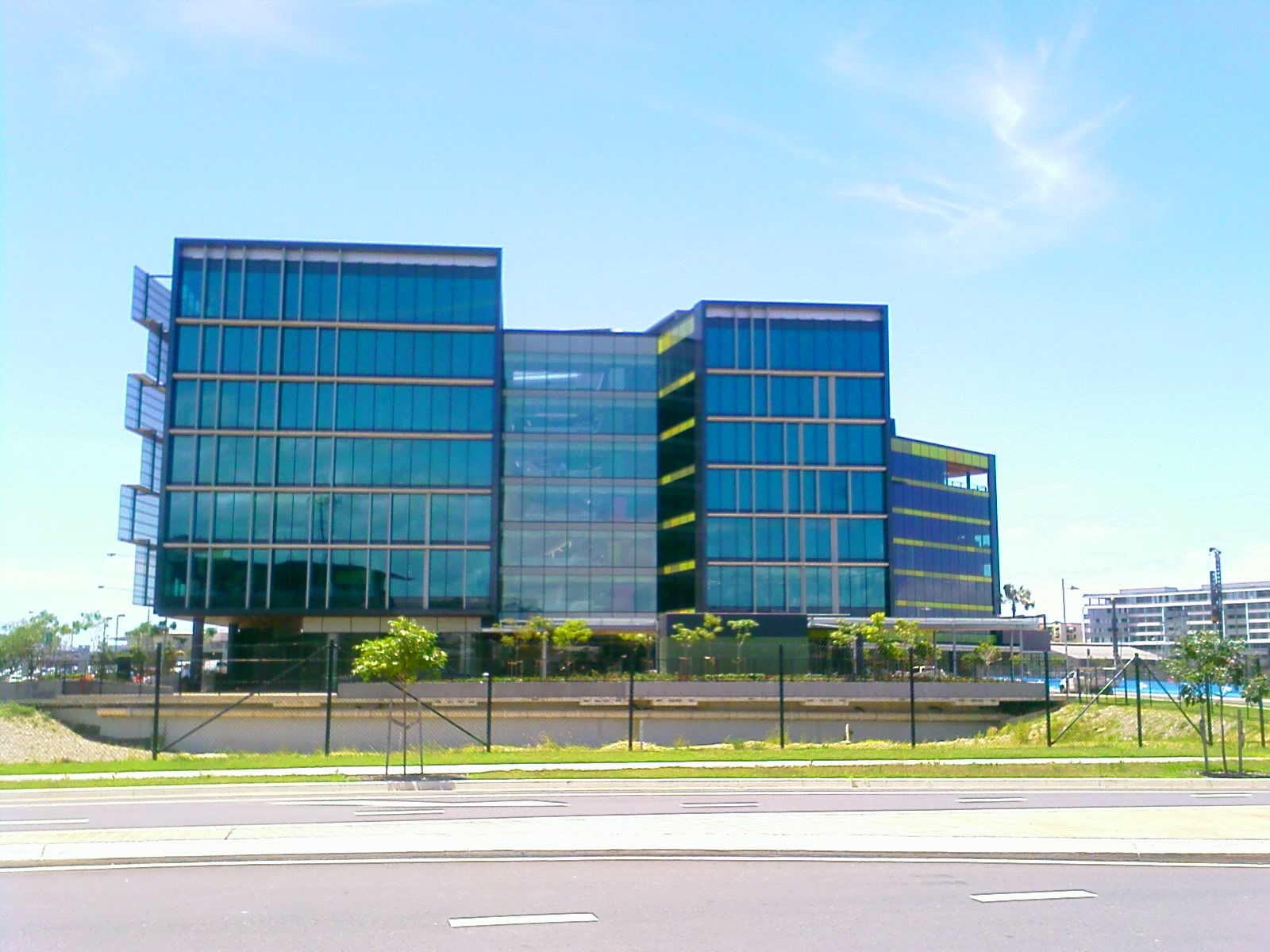 The front side of the new Energex building in Newstead QLD, Australia.